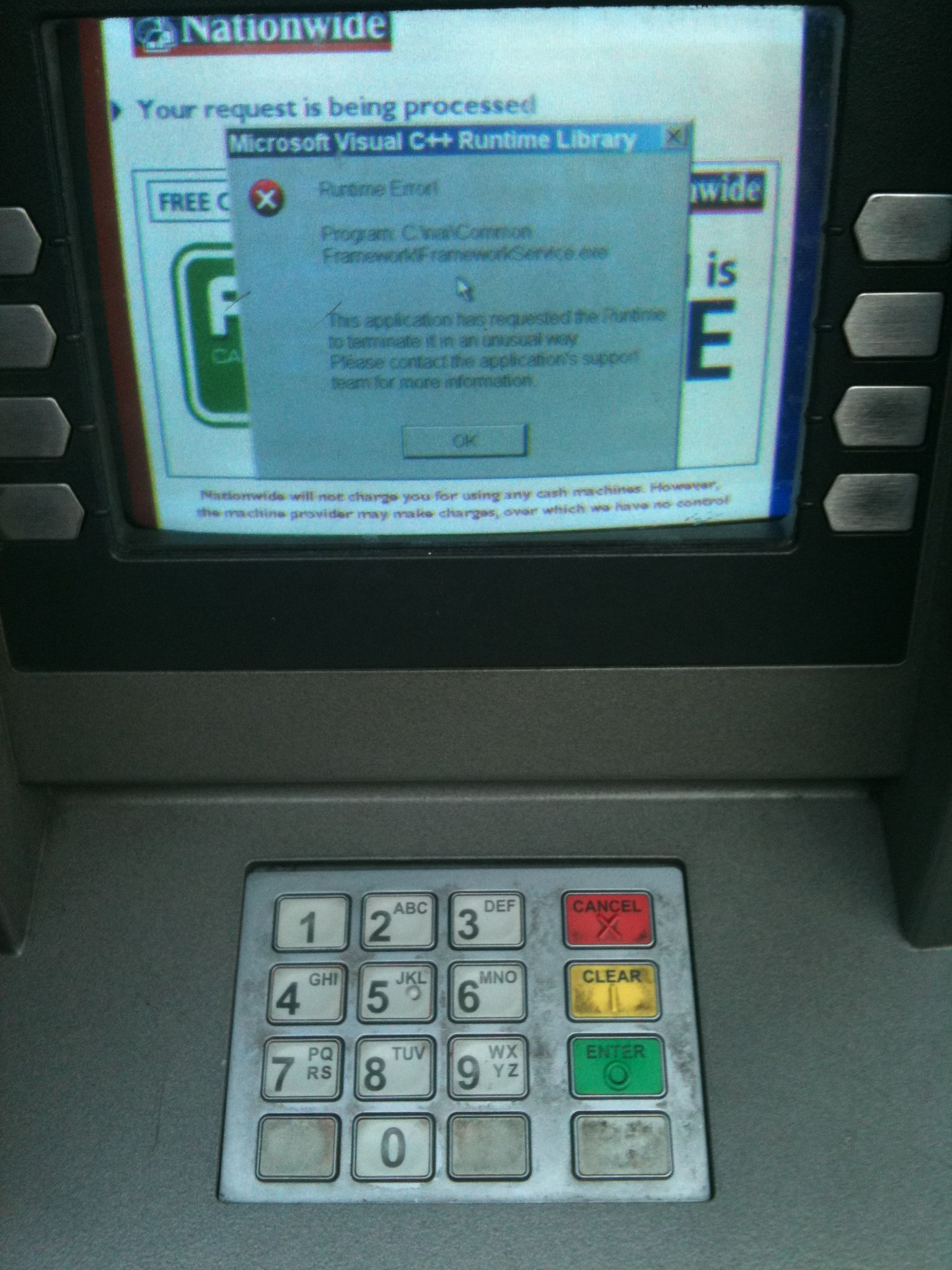 Good to know it's not a VB application at least...